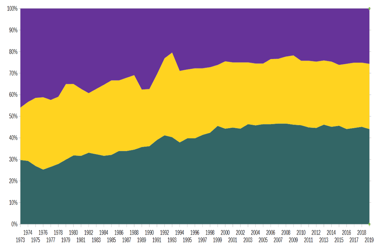 Graph of Freedom House's Freedom in the World report, 1973 through 2019. Free Partly Free Not Free